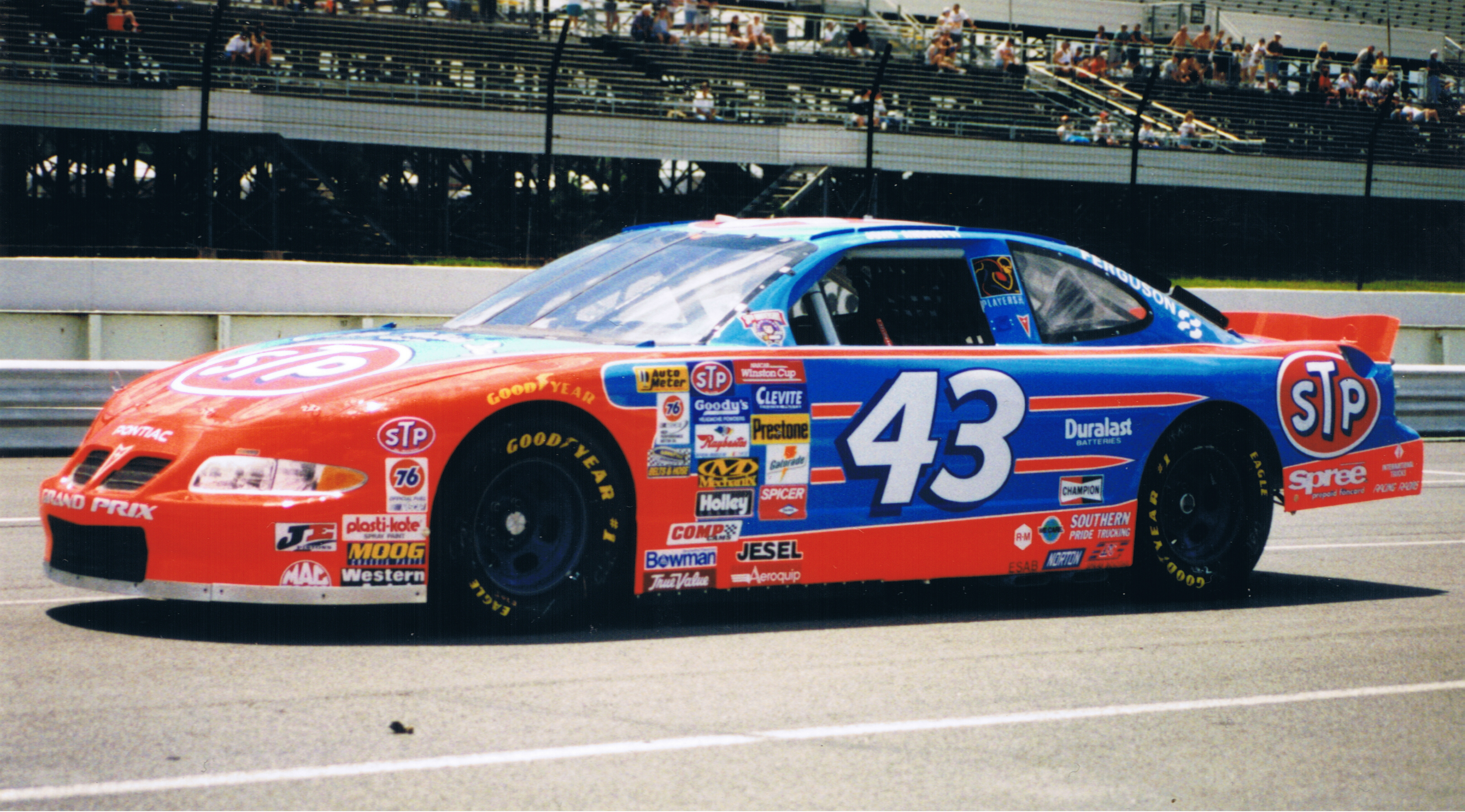 Petty Enterprises #43 Pontiac Grand Prix at Pocono Raceway in June 1998. Driver is John Andretti